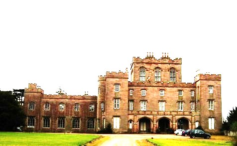 Salton Hall